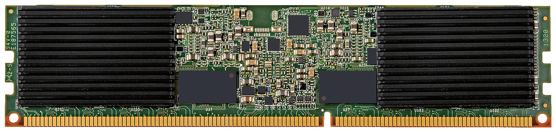 FlashDIMM Back